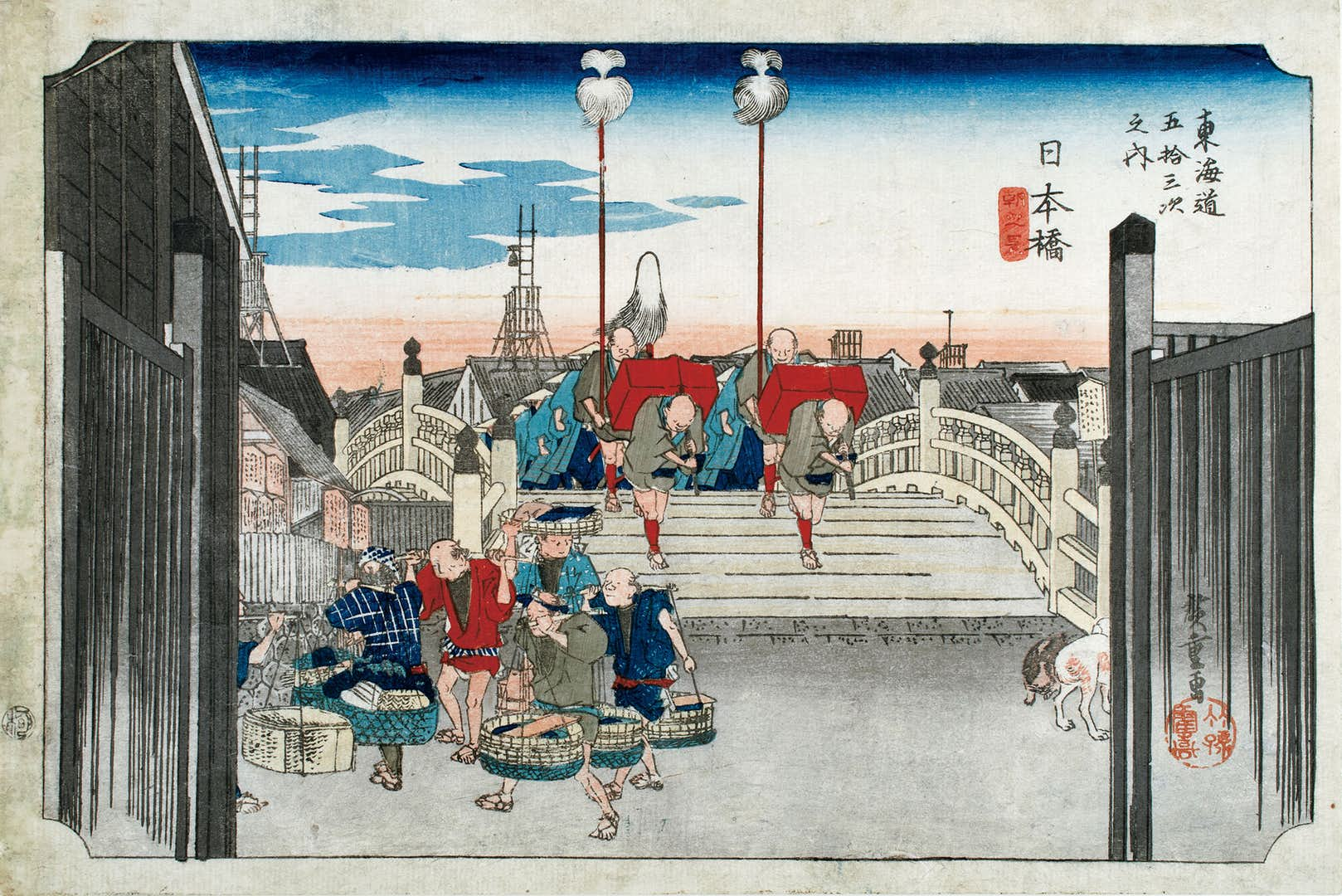 Engraving of Utagawa Hiroshige , belonging to the Ukiyo-e series of The Fifty-Three Stations of Tōkaidō , where Nihonbashi is represented in the Edo Period .